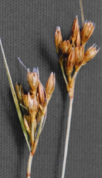 Juncus confusus from Hurd, E.G., S. Goodrich, and N.L. Shaw. 1997. Field guide to Intermountain rushes. General Technical Report INT-306. USDA Forest Service, RMRS, Ogden. Courtesy of USDA FS RMRS Boise Aquatic Sciences Lab. Cropped.